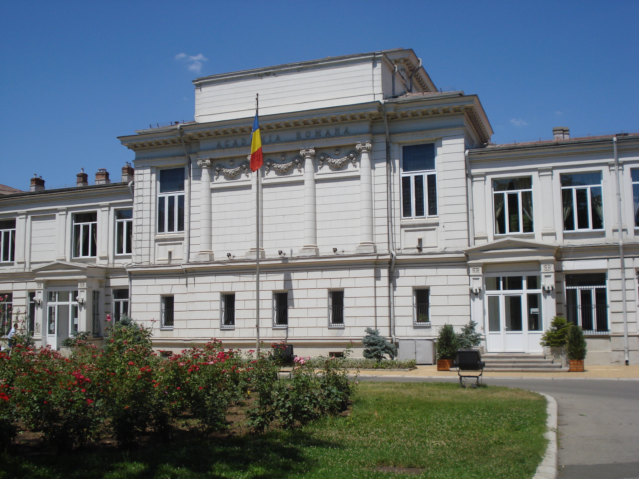 Romanian Academy's building